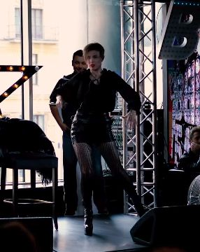 MARUV, a Ukrainian singer, composer, poet and producer.